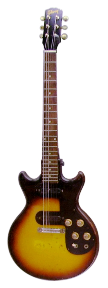 '1960 Gibson Melody Maker – [1] from Rory Gallagher's collection References Instrument Archive - Rory Gallagher | The Official Website. .